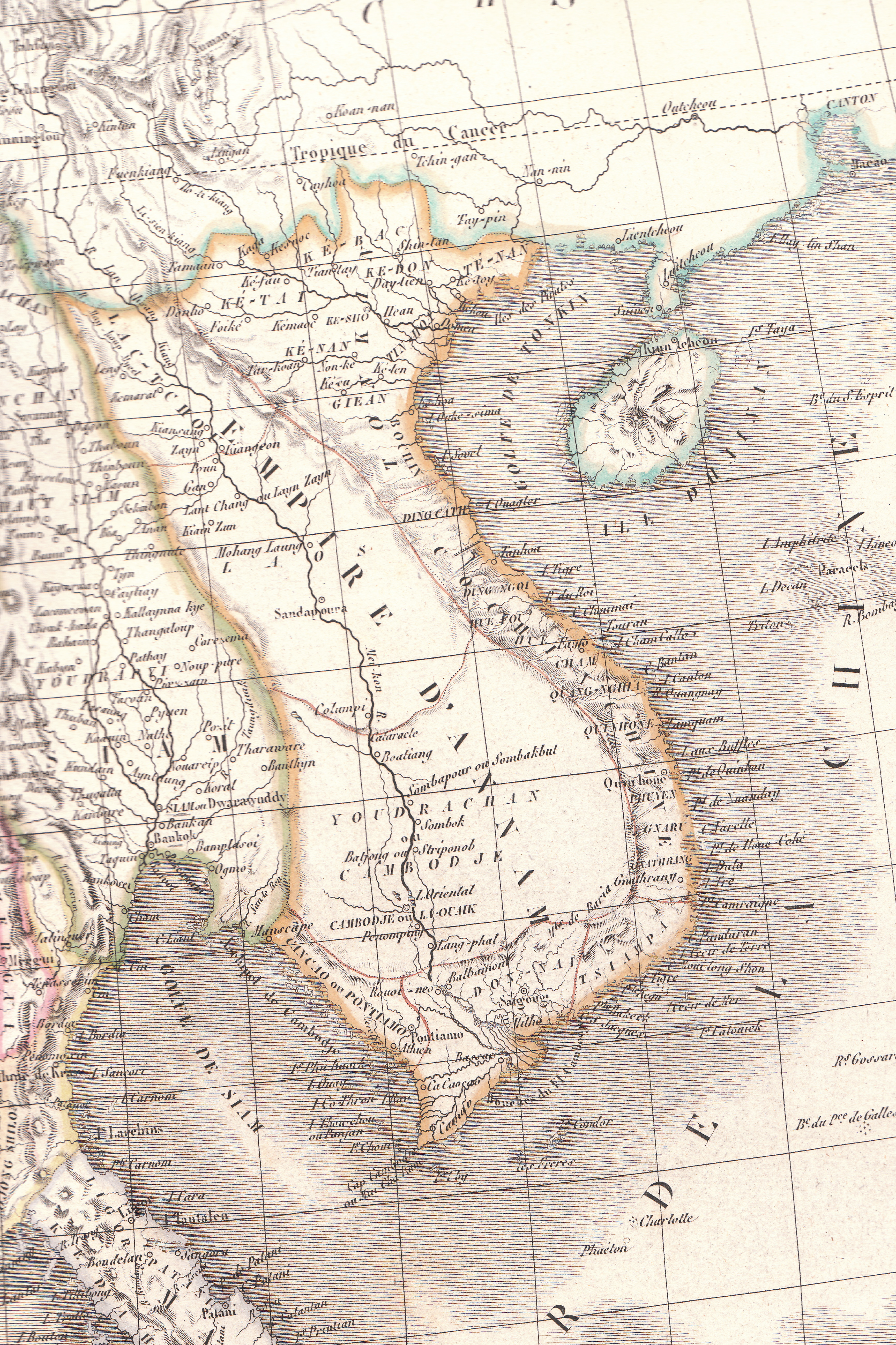 Plate 35E "Carte de l’Inde endeca et audela du Gange" from Lapie's Atlas Universel printed in 1829